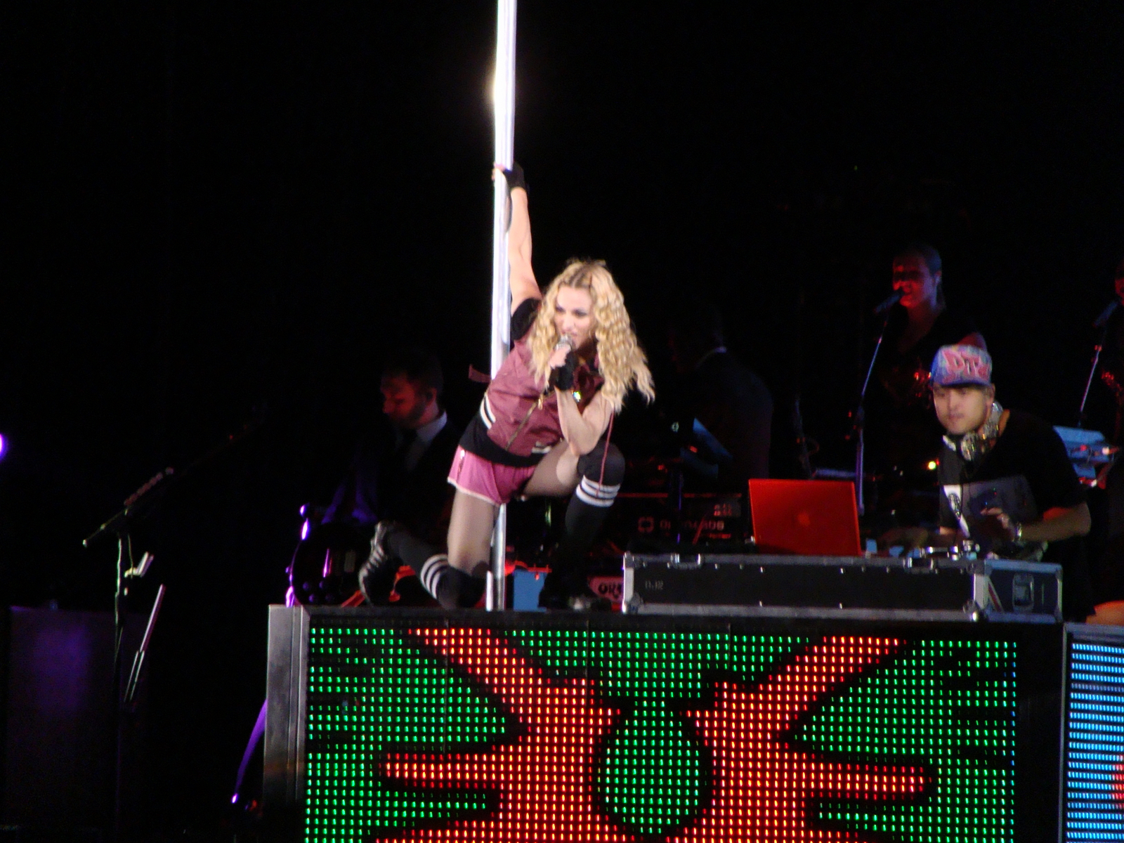 Photo taken at the concert